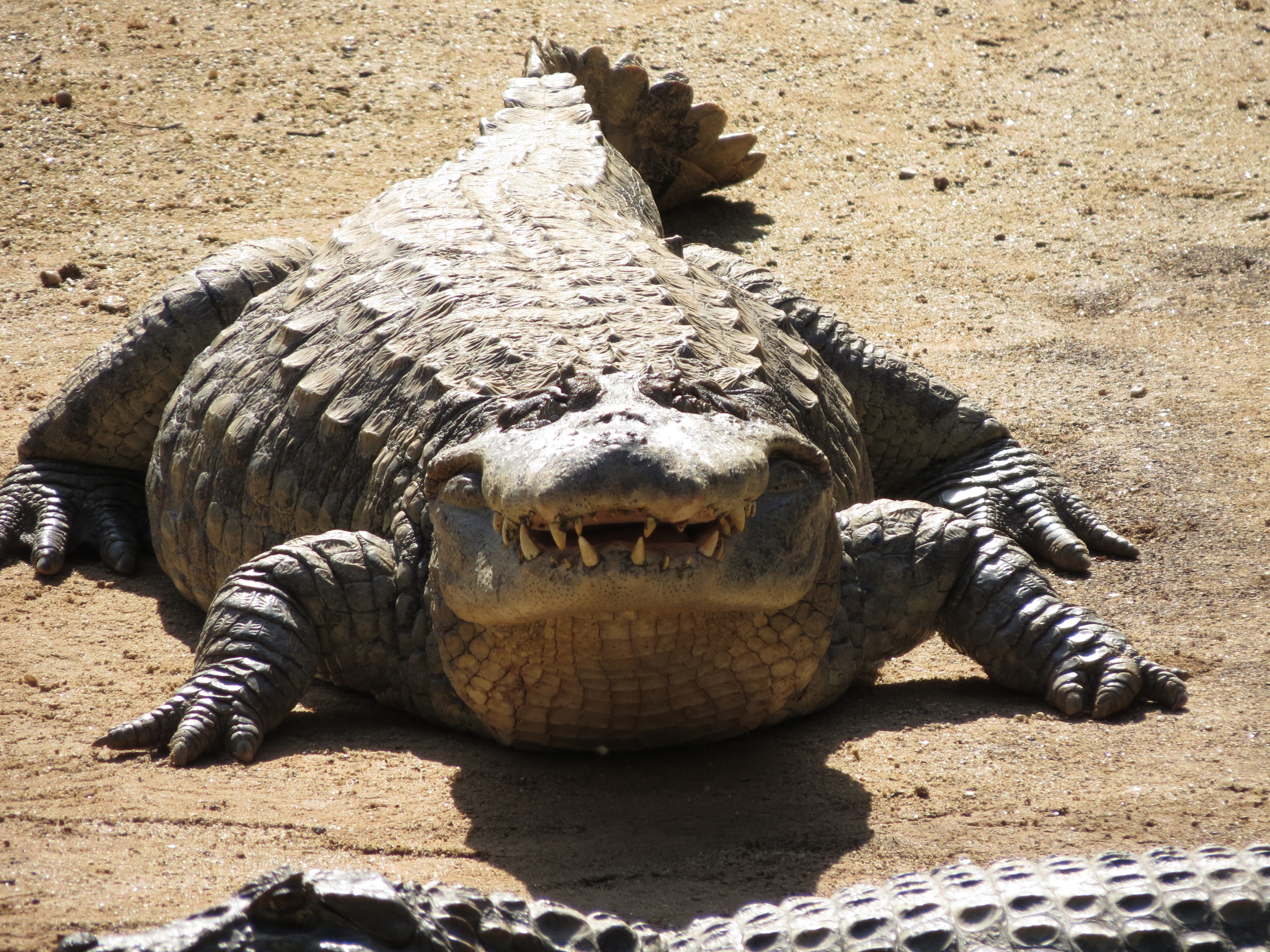 Broad-snouted caiman in São Paulo Zoo.